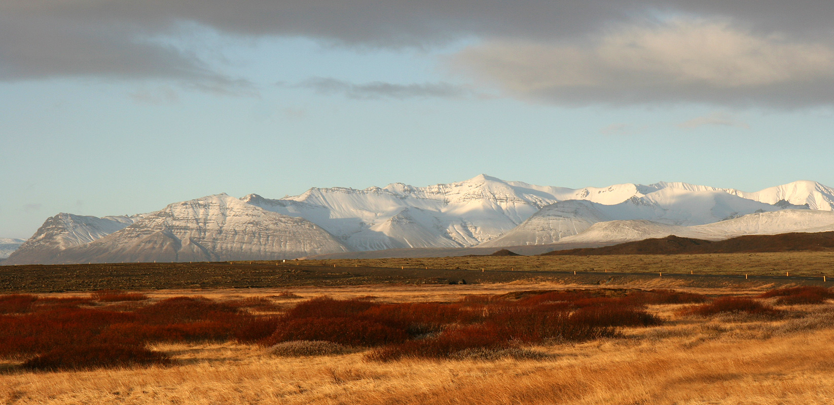 Skaftafellsfjöll, facing northeast, November 24 13:48 Iceland, November 2007 Photo by me user:debivort (or friend, with permission given to freely license photo).